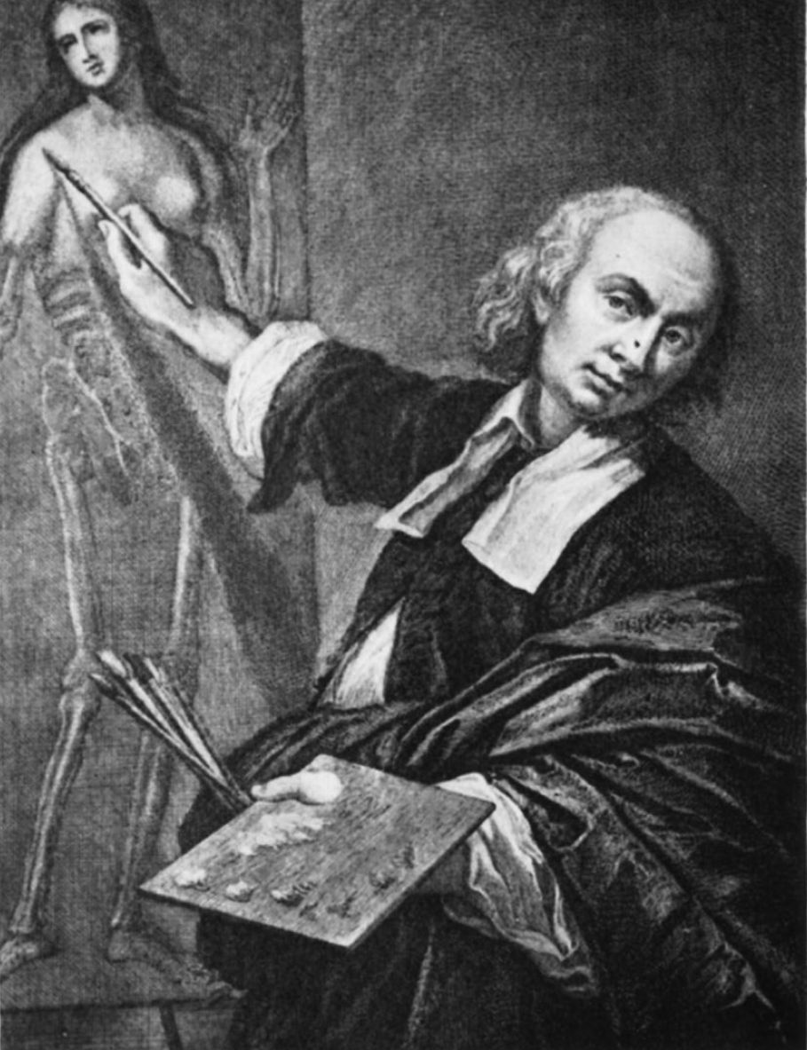 Engraving by G. G. Prenner after Pignoni's self-portrait in the Uffizi.